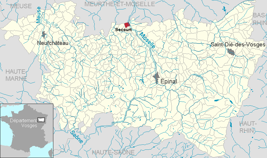 Socourt in the department of Vosges, Lorraine, France